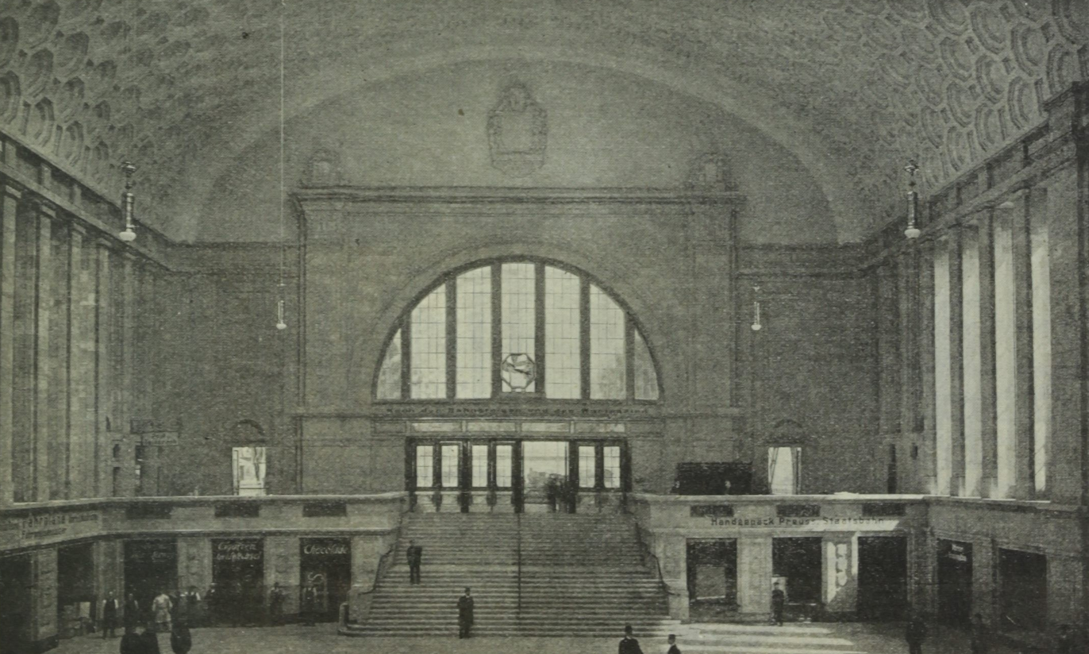 Leipzig Hauptbahnhof, inside view. Photo a. 1913